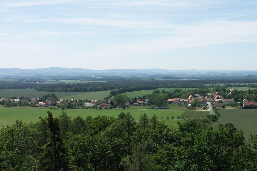 Gross Radisch from Monument Mountain, Upper Lusatia, Saxony, Germany